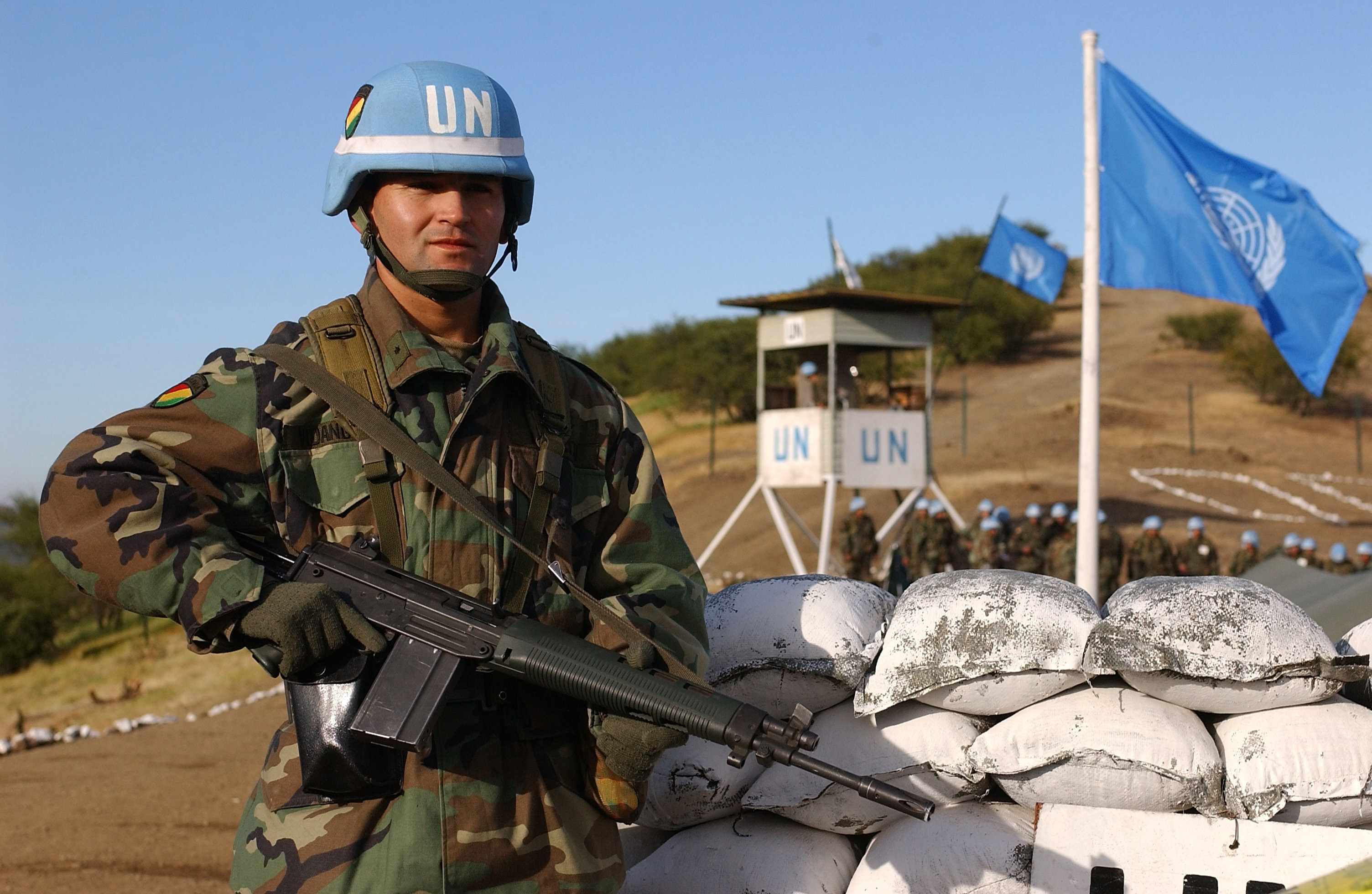 Bolivian Army 2nd Lt. Mauricio Vidangos stands guard at the entry control point of an Observation Point during training, Oct. 21, 2002. The purpose of the training is to prepare for the Field Training Exercise portion of Cabanas 2002 Chile, held in Fuerte Lautaro, Chile. Cabanas 2002 Chile is a multinational combined readiness training exercise centered around peacekeeping operational tasks. This exercise provides an opportunity for over 1,300 military and civilian personnel from Argentina, Bolivia, Brazil, Chile, Colombia, Ecuador, Paraguay, Peru, Uruguay, and the United States to increase their state of readiness in combined multinational peacekeeping operations and a forum to encourage human rights. (U.S. Air Force photo by Senior Airman JoAnn S. Makinano) (Released)